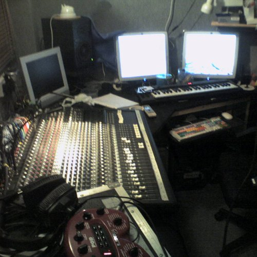 Photo of a recording studio control room during recording of Witches' Heart of Stone album